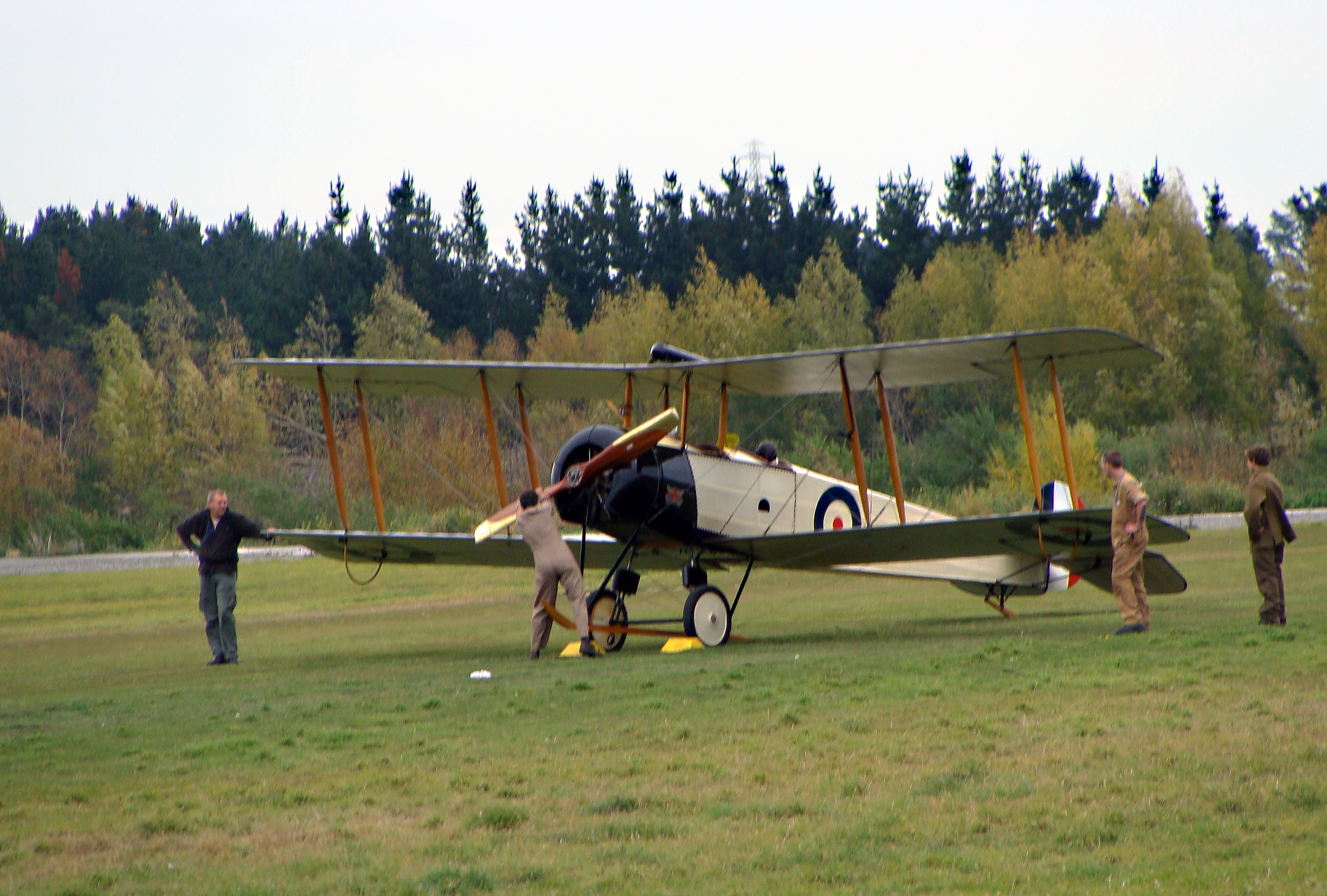 Avro 504K, Masterton, New Zealand, 25 April 2009 ANZAC Day display